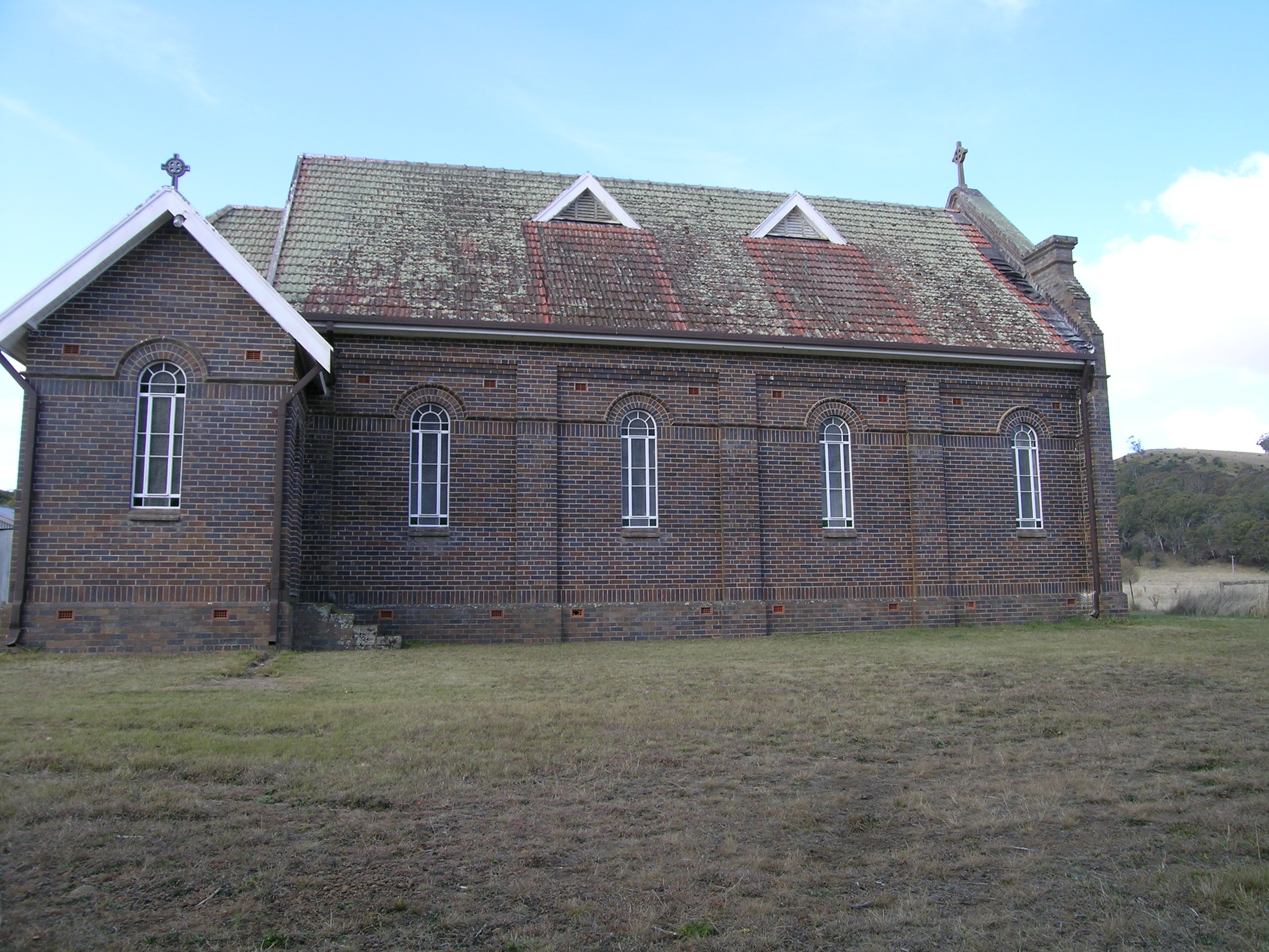 Ben Lomond Church with The Brothers Mountain to the right.